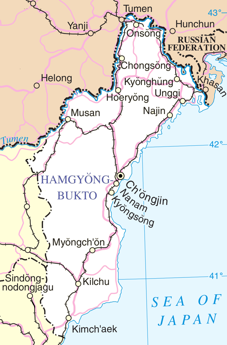 Map of Hamgyong-pukdo, cropped from Un-north-korea.png